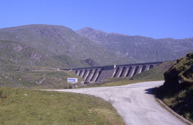 Cruachan Reservoir Dam. Part of the Hydro Electric scheme beneath Cruachan